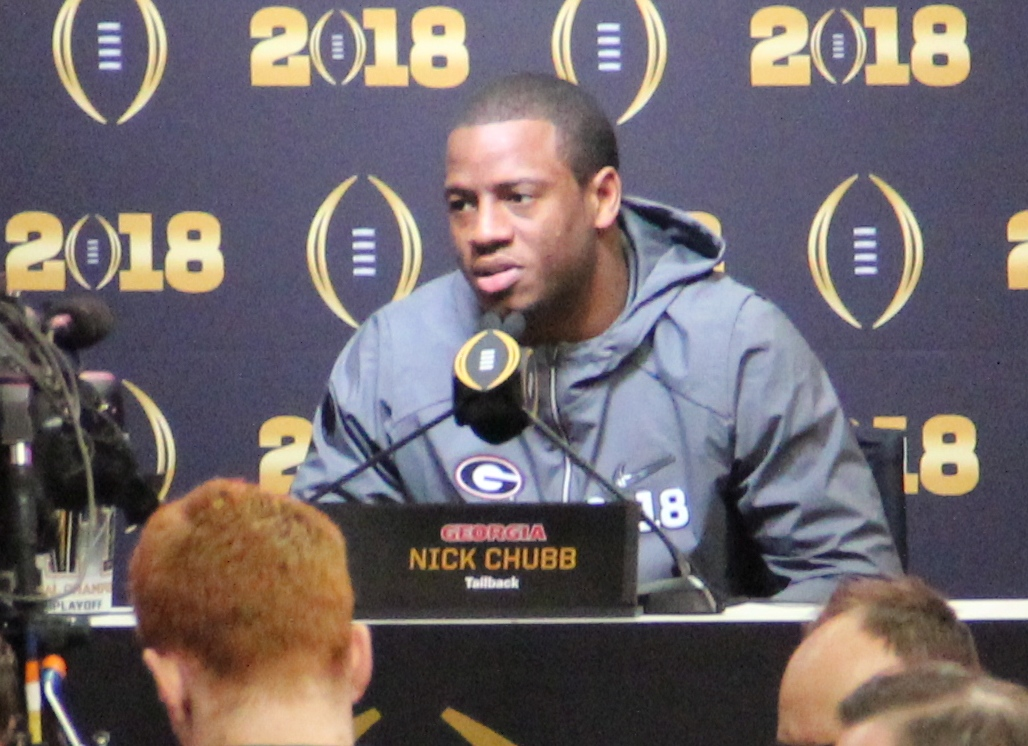 Nick Chubb in 2018